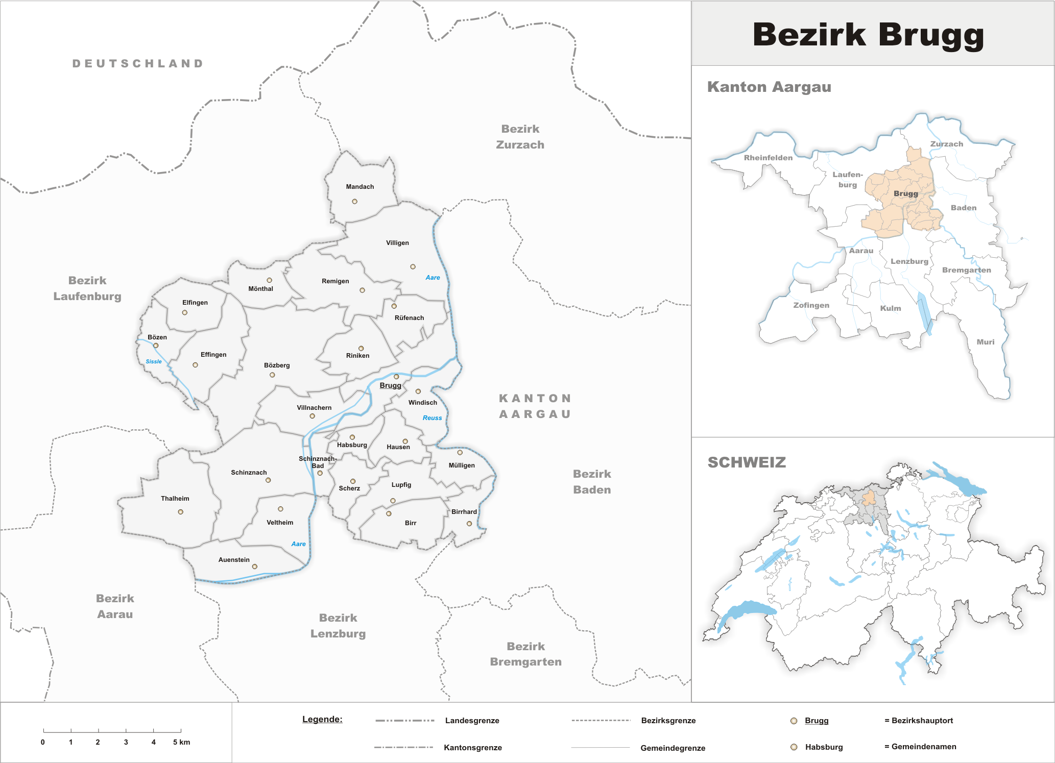 Municipalities in the district of Brugg